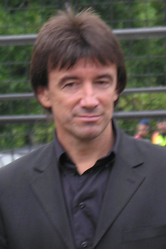 Béla Illés Hungarian international association football player at funeral of Bertalan Bicskei.